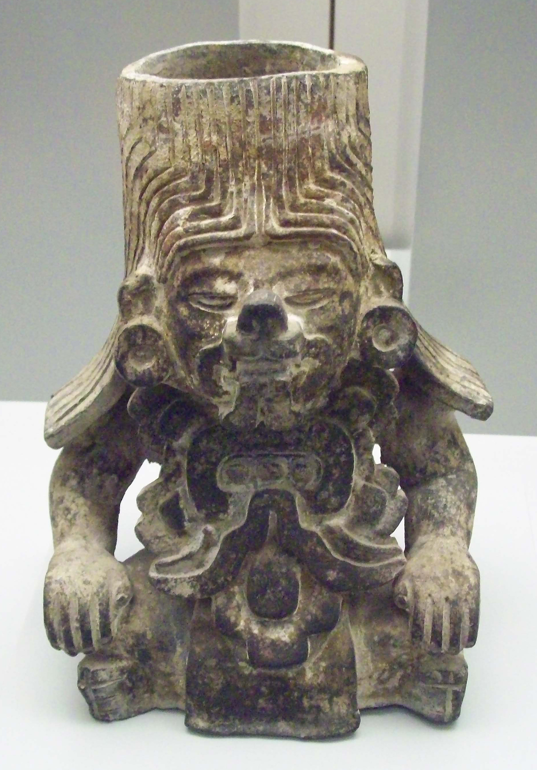 Ceramic vessel representing a human figure with feline features. Zapotec Culture (Monte Albán III phase), Early Classic and Middle Classic Periods.